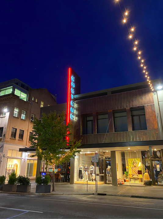 Signage in Adelaide's East End on Rundle St